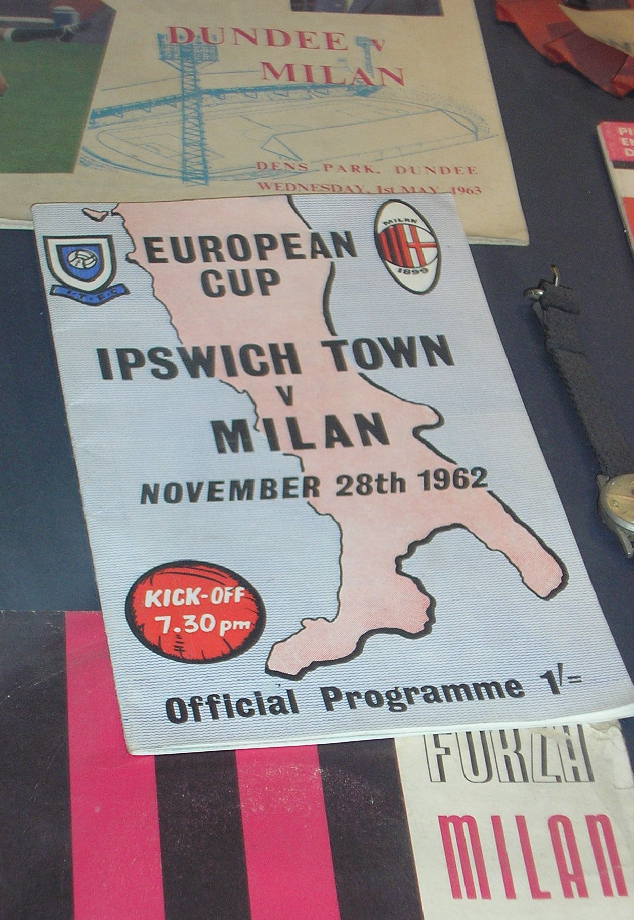 Cropped image of front cover of an Ipswich – AC Milan football programme, taken at the San Siro Museum on 25 August 2005